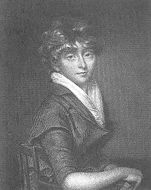 Elizabeth Inchbald